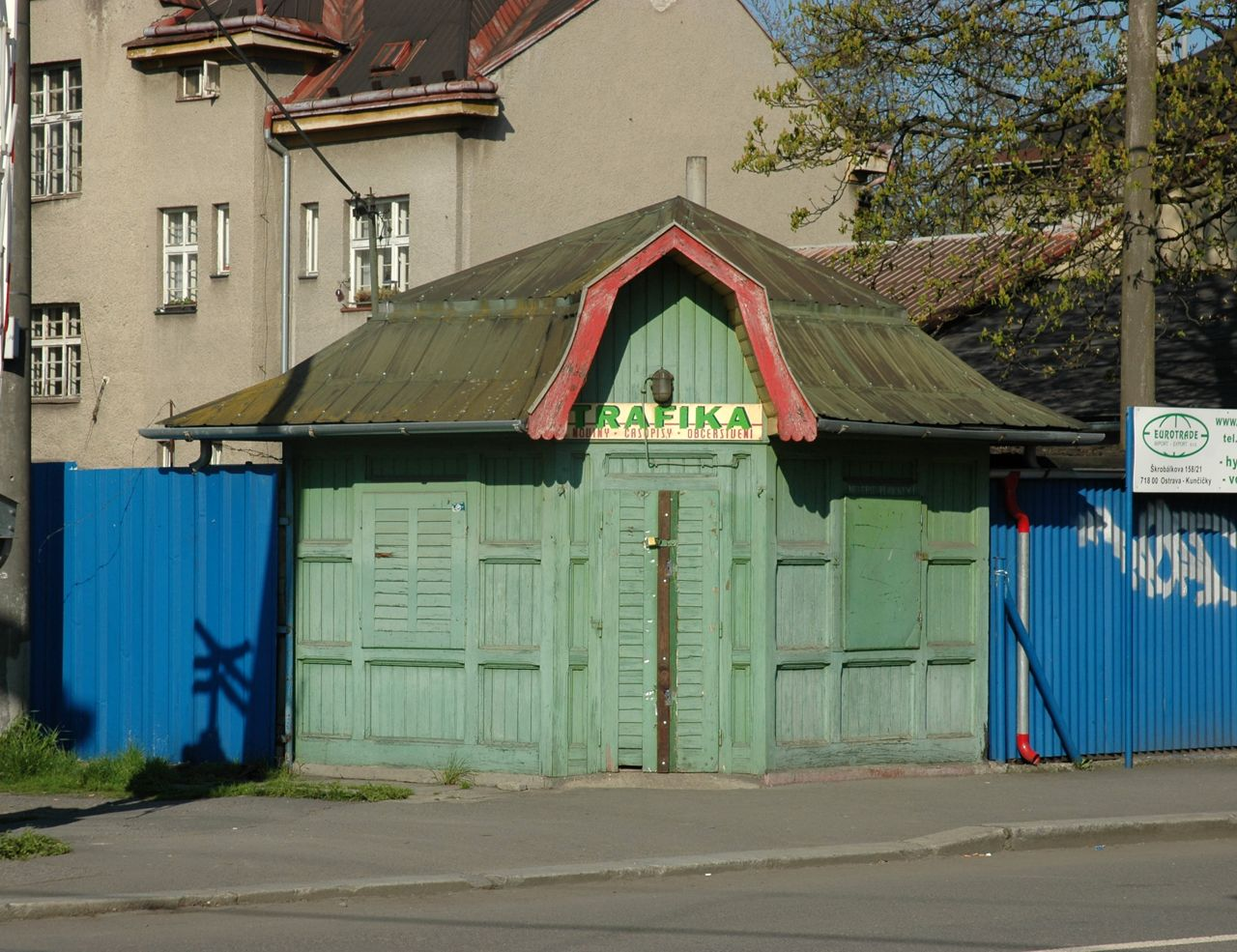 Tobacco shop, Škrobálkova street, Ostrava-Kunčičky, Czech Republic